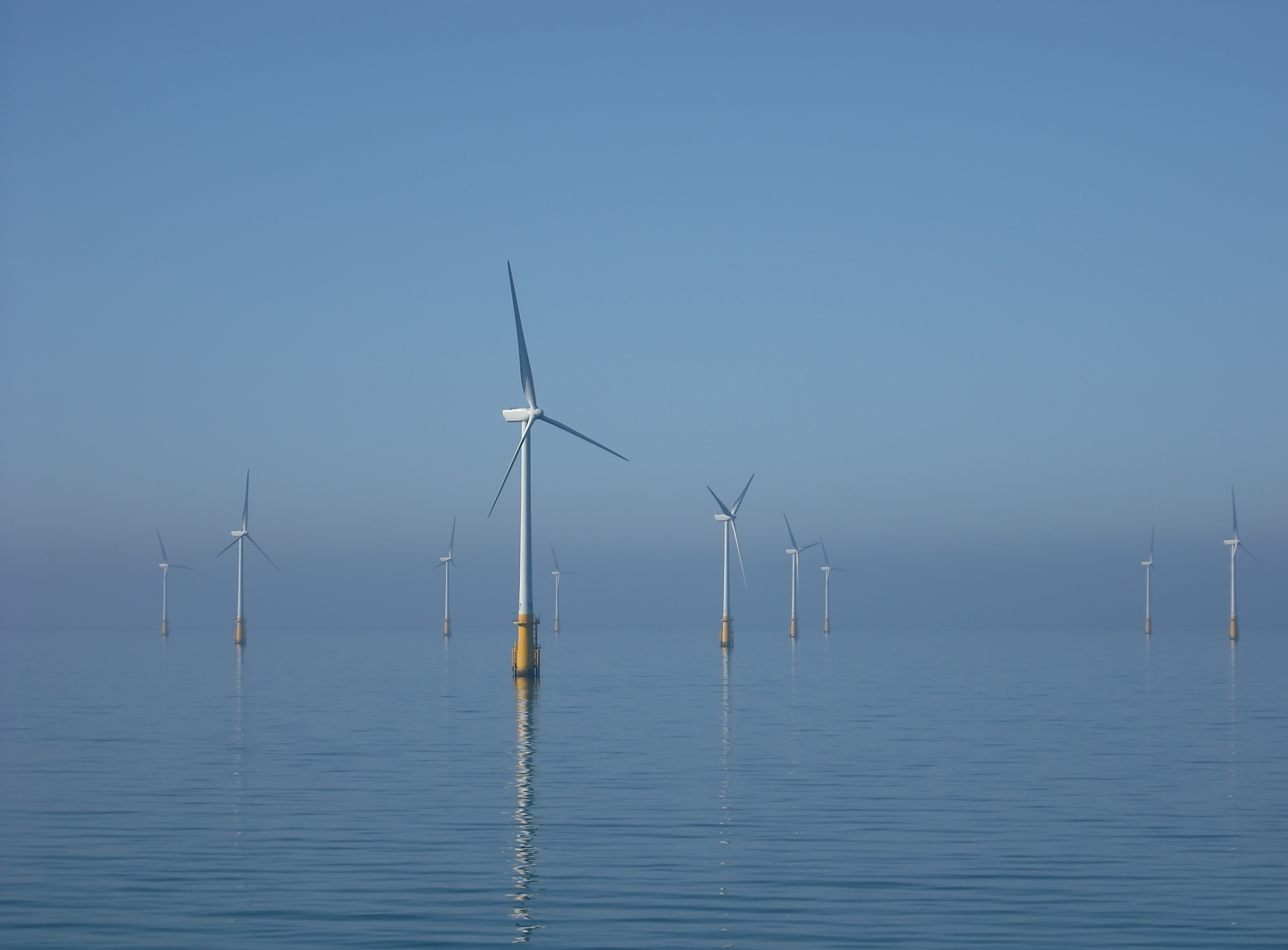 Offshore wind turbines at Barrow Offshore Wind Farm off Walney Island in the Irish Sea Unusually good weather for April!